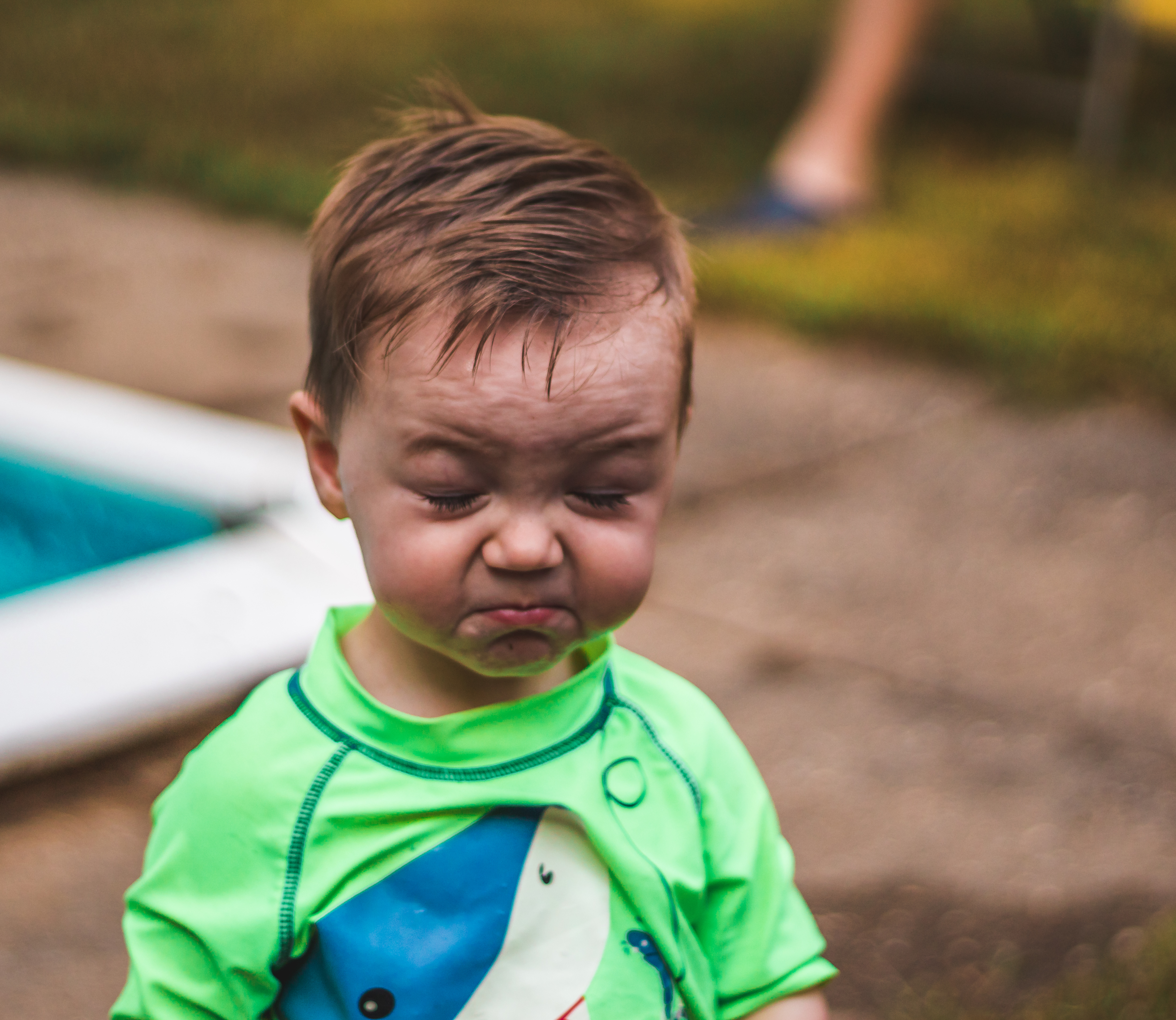 showing a strong disgust emotion